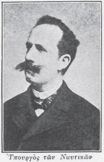 Nikolaos Dimitrios Levidis (1848–1942), a Greek politician who was Naval minister at 1895, Justice minister at 1903, Interior miniser at 1908 and twice President of the Hellenic Parliament from 18 November 1906 to 12 October 1908. (The image source identified the subject of the image as Ipourgos Nautikon (Naval minister) as of 1896: see Levidis Nikolaos. Pandektis – A Digital Thesaurus of Primary Sources for Greek History and Culture, National Hellenic Research Foundation. Retrieved on 13 December 2010.)